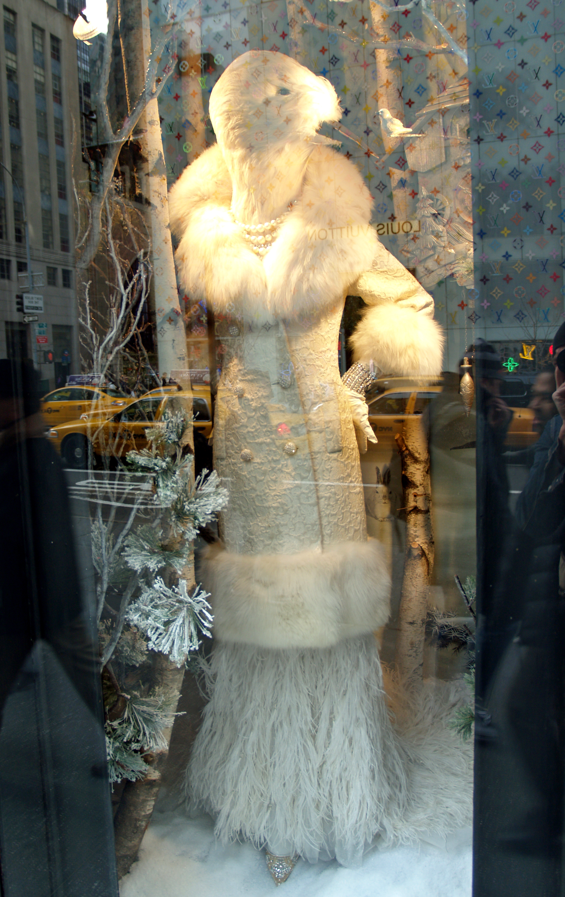 Bergdorf Goodman's Fifth Avenue, New York City window display, featuring Badgley Mischka. The Louis Vuitton store across the street appears in the reflection.